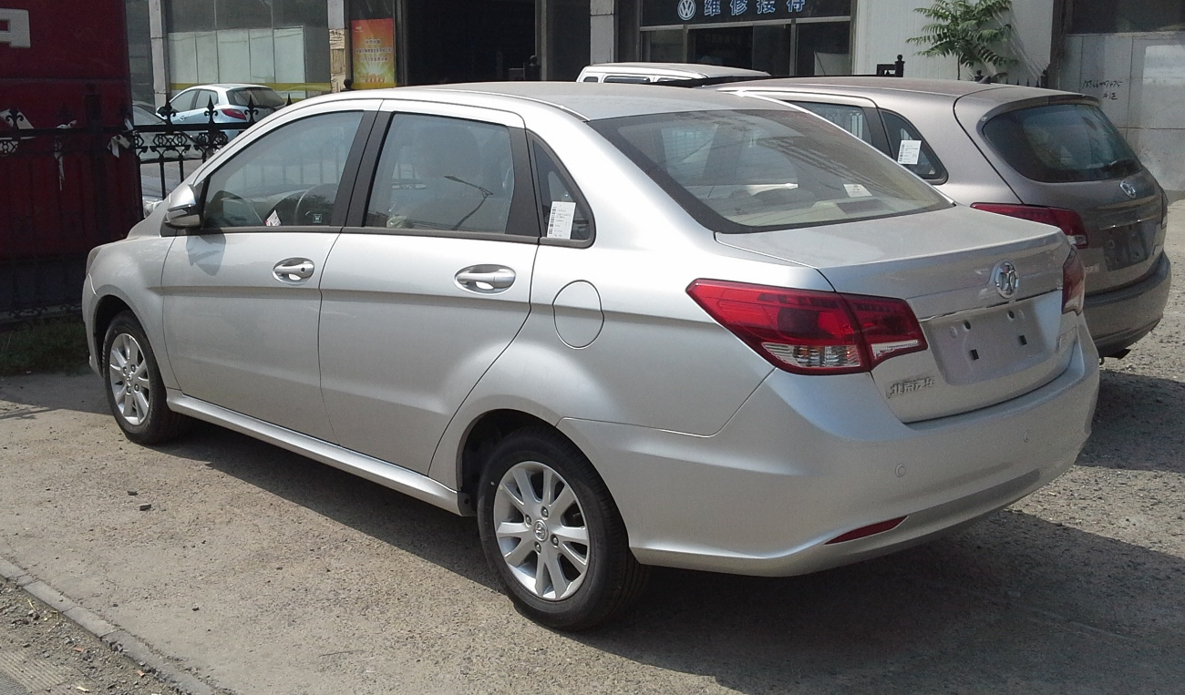 Beijing Auto E-Series sedan photographed in Beijing, China.